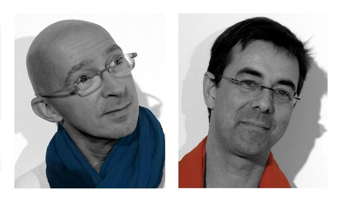 Mario Vachon et Guy Campion, from the duet of pianists Campion/Vachon